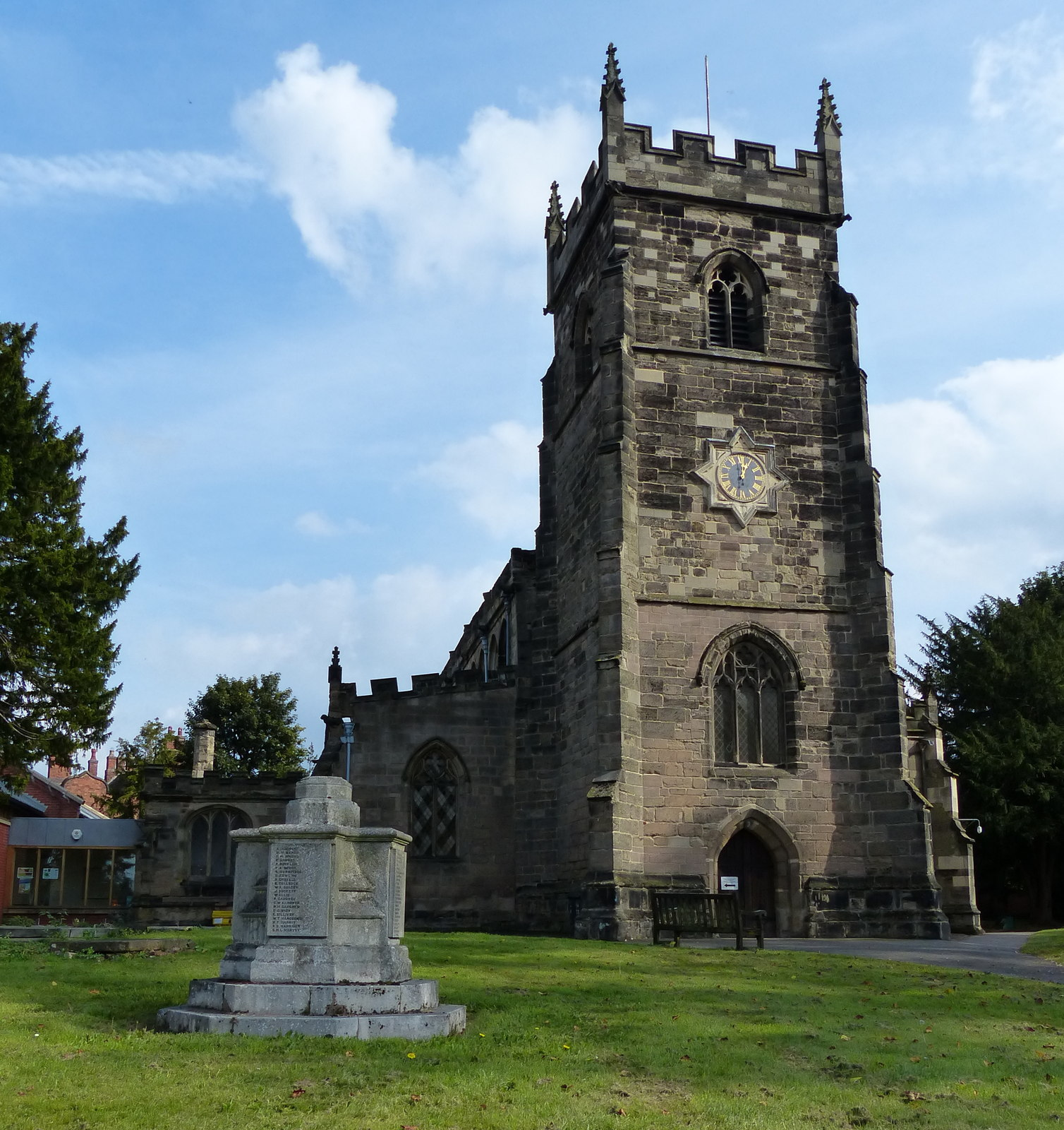 Saint Nicolas Parish Church in Nuneaton.